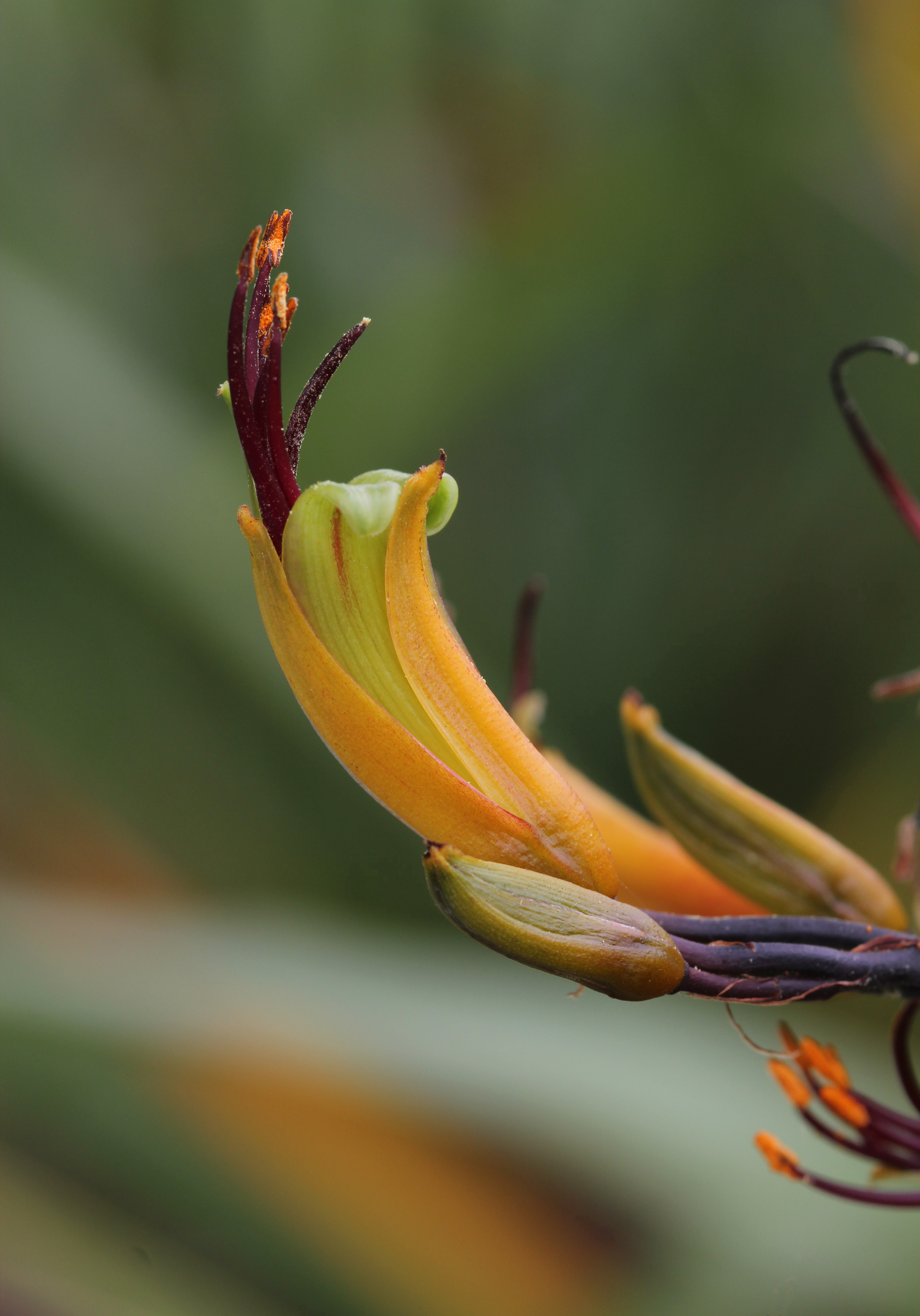 Mountain flax flower (Phormium cookianum). Photo taken in Auckland, New Zealand.